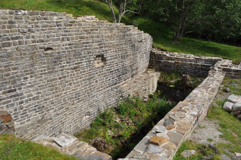 Low Slitt Lead Mine, Data from Geograph: Description: The former lead mine, this view shows the wheel pit. The wheel drained the mine via a pump. ICBM: 54.747396852771, -2.148170119725 Location: (about 1 km from) near to Westgate, County Durham, Great Britain.